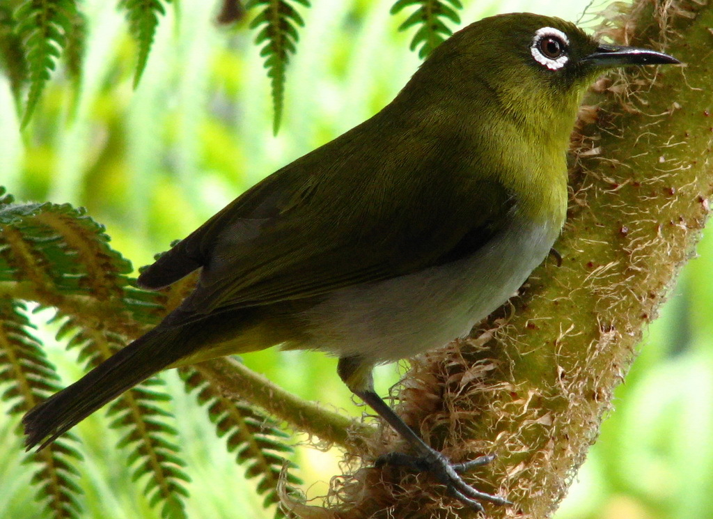 Sri Lanka Hill White-Eye